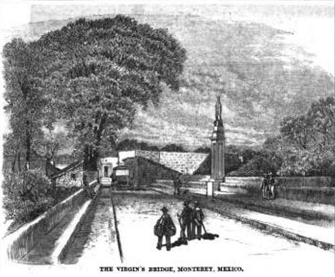 From the American Magazine: Popular Montly of Frank Leslie. Article MONTEREY—THE METROPOLIS OF NORTHERN MEXICO By FANNIE B. Ward. Shows the Virgin "La Purisima" bridge. In Monterrey Mexico 1884.